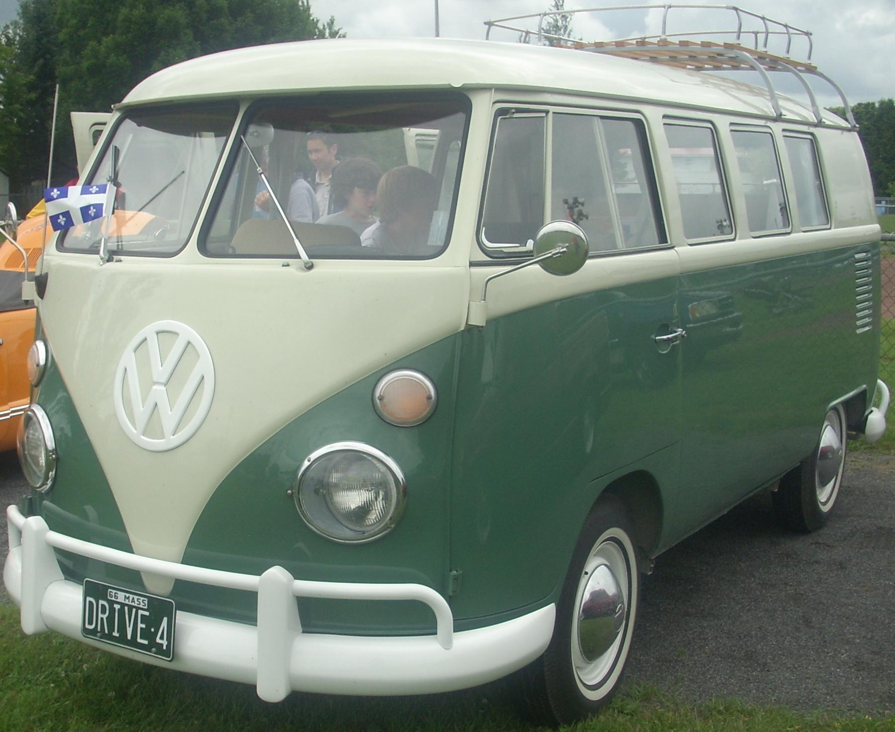 1966 Volkswagen Kombi photographed in St. Lazare, Quebec, Canada at the 2010 St. Jean Baptiste Classic Car Show.